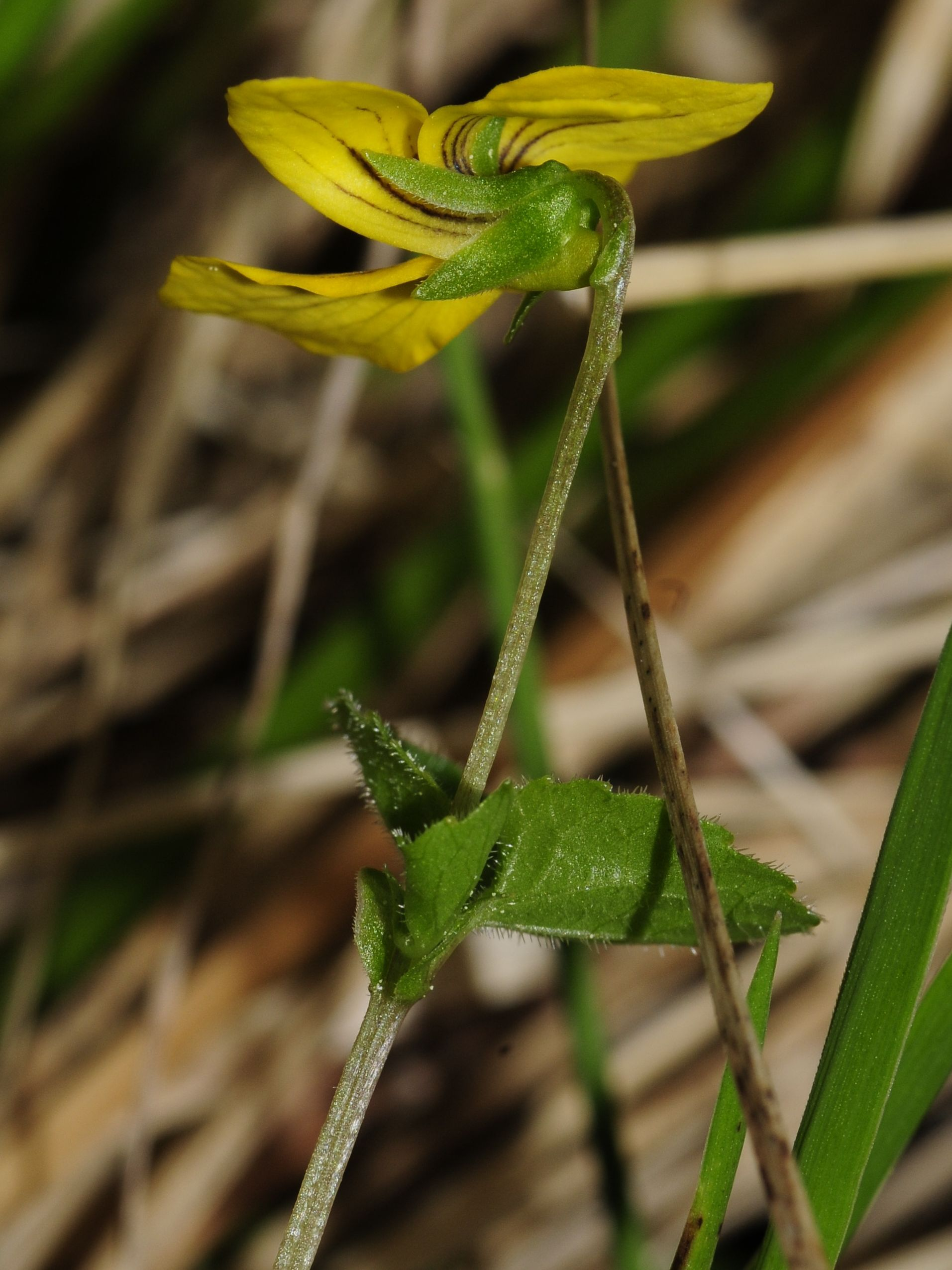 Please report references to .